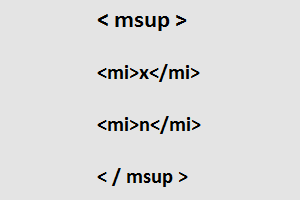 Layout example mathML